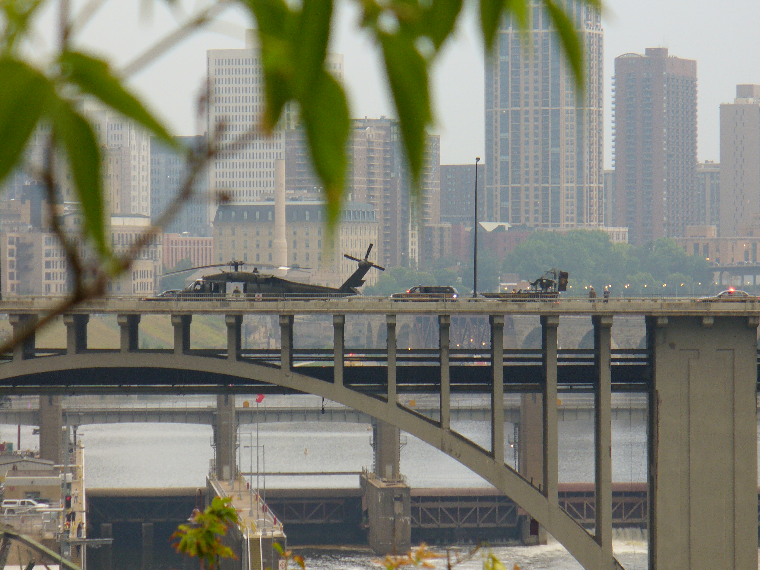 Helicopter and airboat on 10th Avenue SE bridge, which is parallel to collapsed I-35W bridge in Minneapolis, on August 1, 2007. Public domain caption on a photo from another source explained: "At 7:27 p.m. August 1st, 2007, one UH-60 Medevac helicopter was deployed to conduct hoist and personnel rescue operations. The aircraft was recalled later that evening and has not been requested for additional flight support. The crew was Chief Warrant 4 Pratt, Chief Warrant 5 Shoemaker, Sgt. 1st Class Dickison, and Staff Sgt. Gomez."[1]